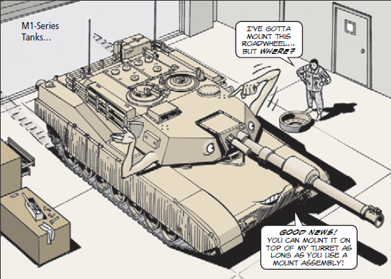 M1-Series Tanks Roadwheel Mounting illustration.